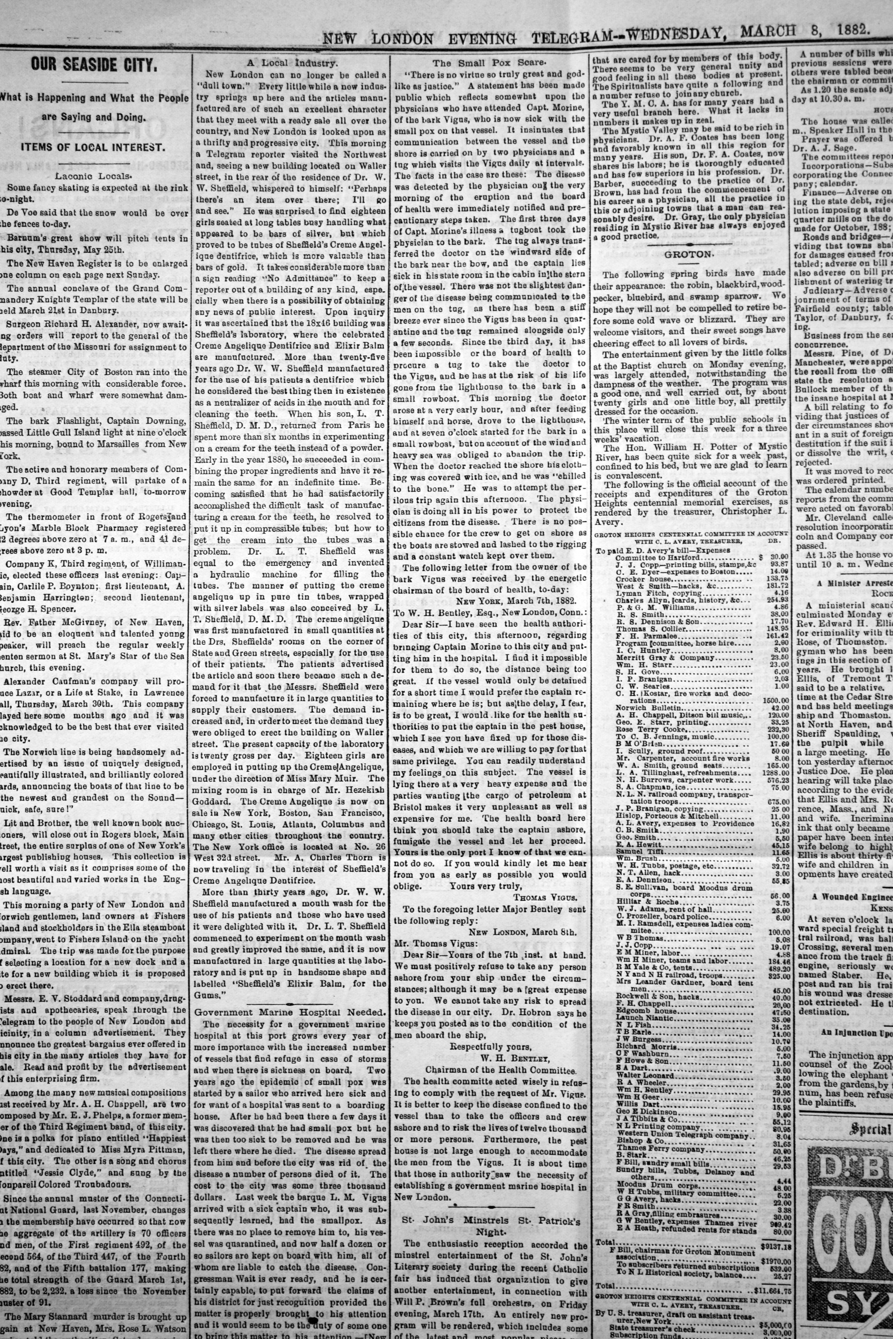 New London Evening Telegram, March 8, 1882, describes toothpaste being packaged in tubes